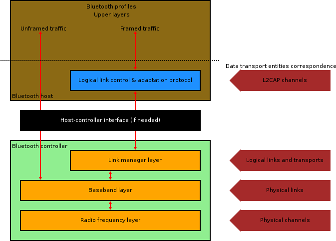 Complete core Bluetooth stack as defined by the specification. Layers are split into controller and host devices, though they may be all embedded so that an explicit interface between them is not strictly needed. Also noted are the different data transport entities and the layers where they naturally belong.